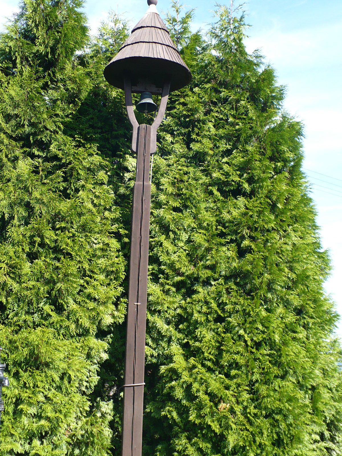 bell tower, the small church